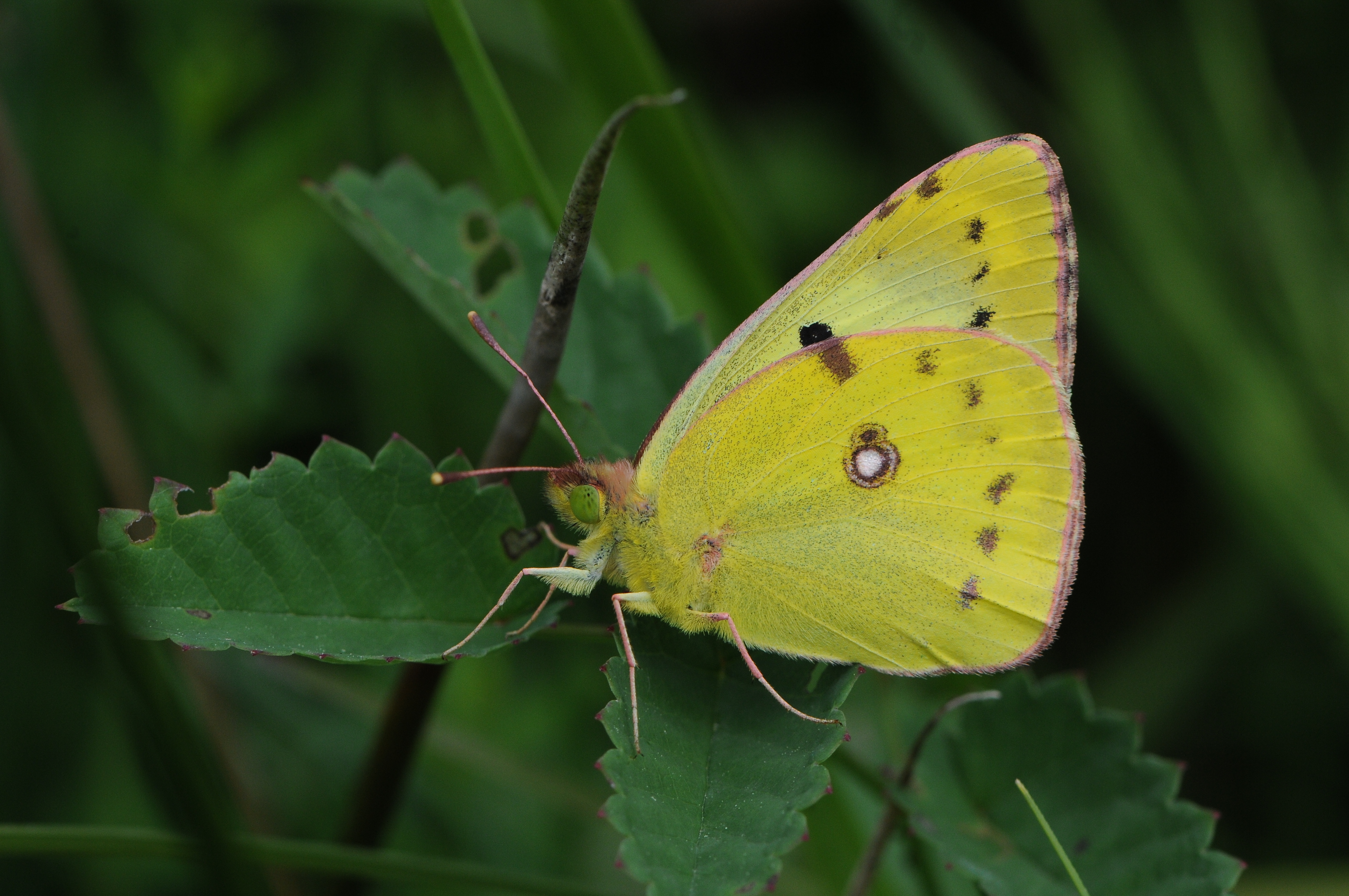 Pale Clouded Yellow (Colias hyale) seen in Widdermoos near Sennwald.